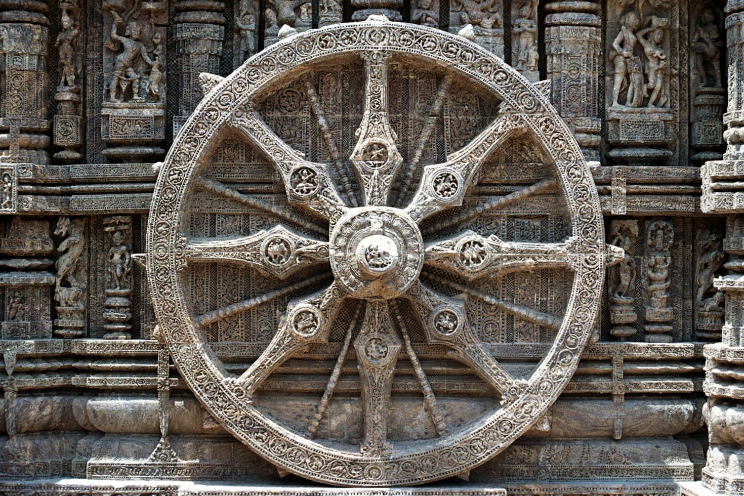 An intricate representation of the Dharmacakra (or Buddhist Wheel), in Sun temple, Orissa